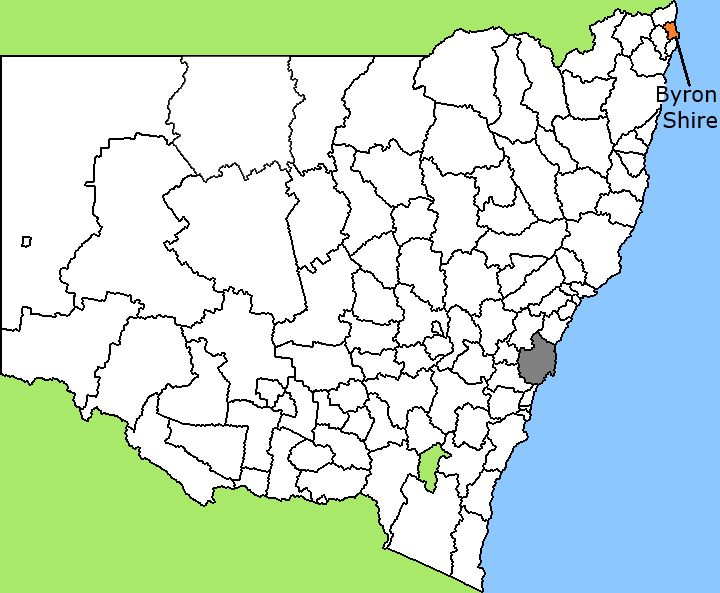 Map of New South Wales/Australia, LGA of Byron Shire highlighted